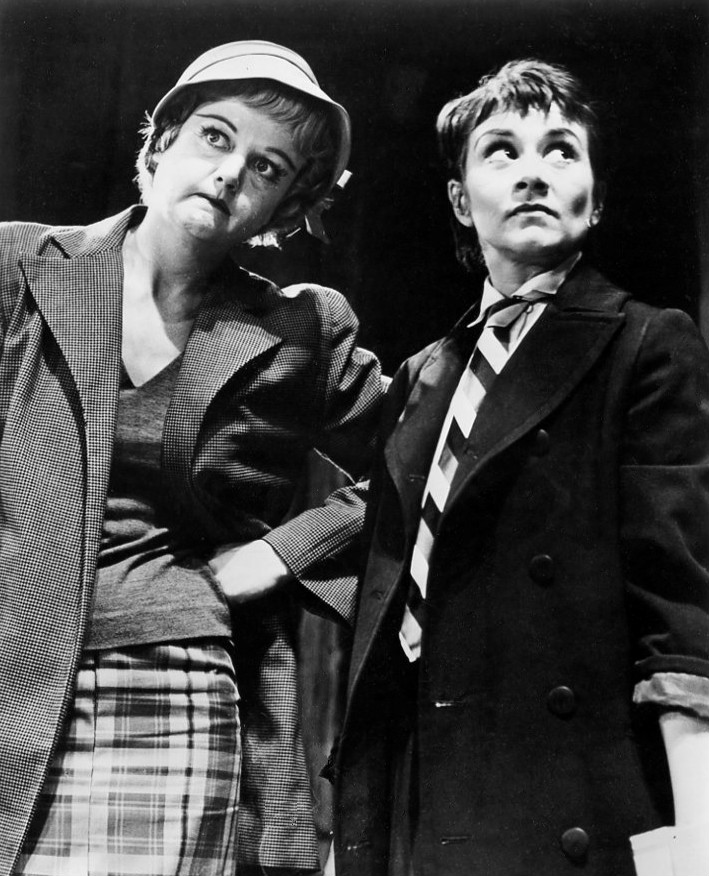 Angela Lansbury as Helen and Joan Plowright as her daughter, Jo, survey their new flat in the Broadway presentation of A Taste of Honey.